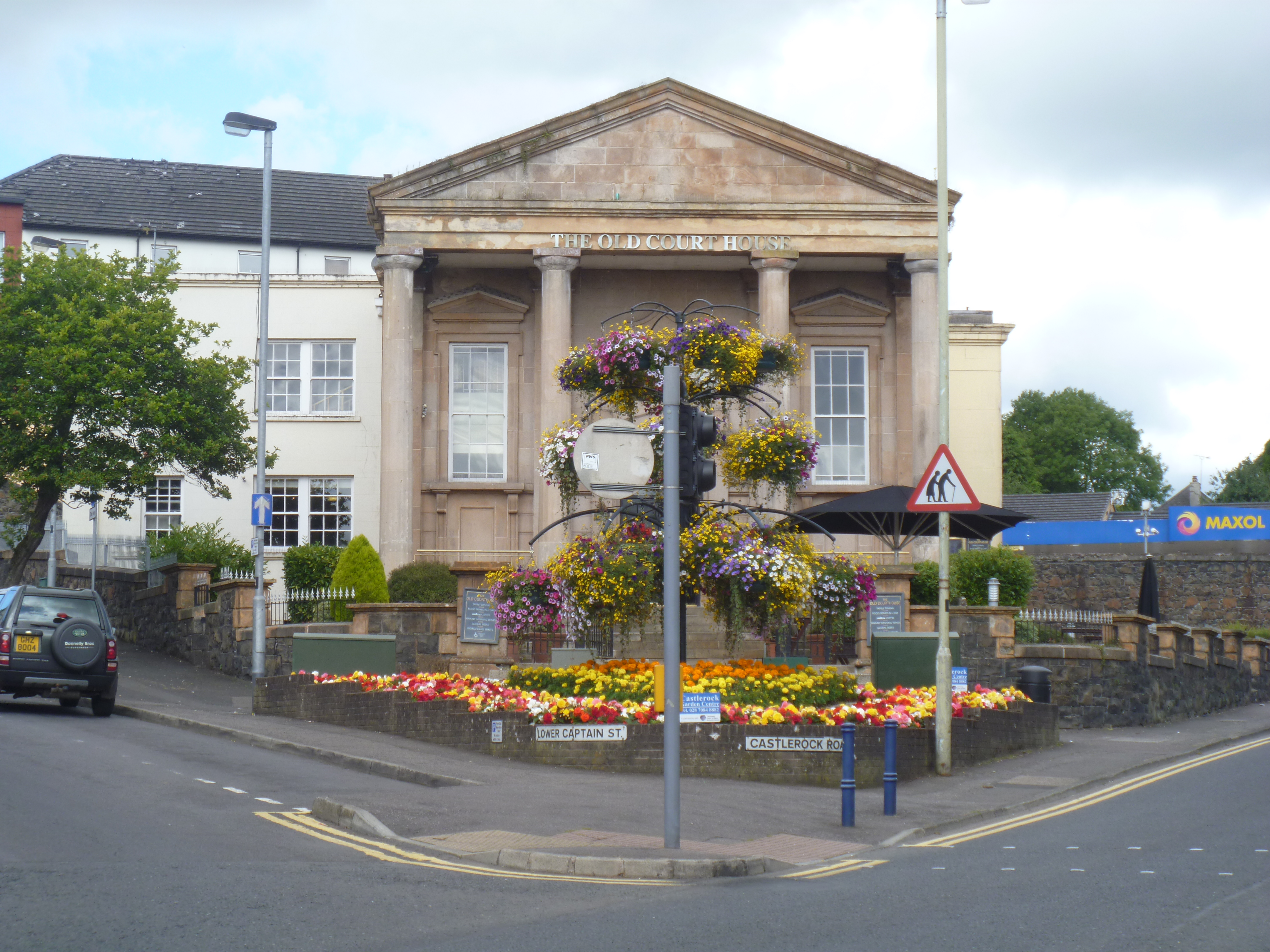 The Old Courthouse